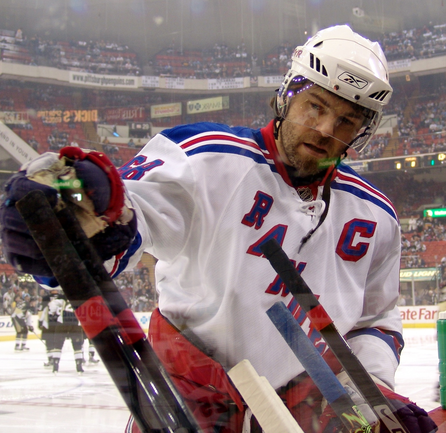 Jaromir Jagr selects a stick for warm-up prior to a May 4, 2008 playoff game between the New York Rangers and Pittsburgh Penguins at Mellon Arena in Pittsburgh, PA. The 2-1 overtime loss eliminated the Rangers in five games. It would be Jagr's final game at The Igloo.